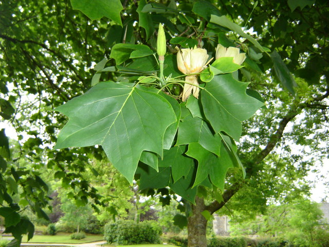 Cotehele Upper Garden Tulip Tree Tulip Tree (Liriodendron tulipifererum) not your everyday tree,but as you can see on this mature tree the flowers are tulip shaped.Cotehele is in the background.